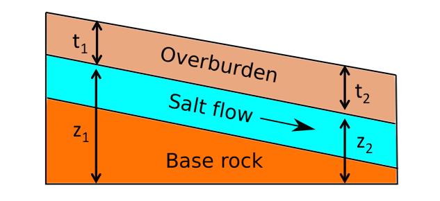 Hydraulic head 2